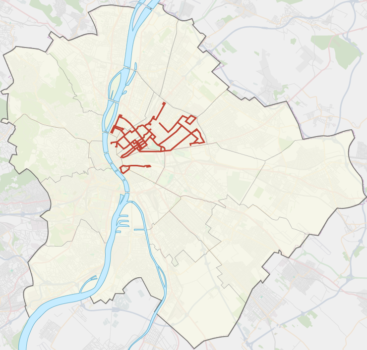 Map of the trolleybus network of Budapest